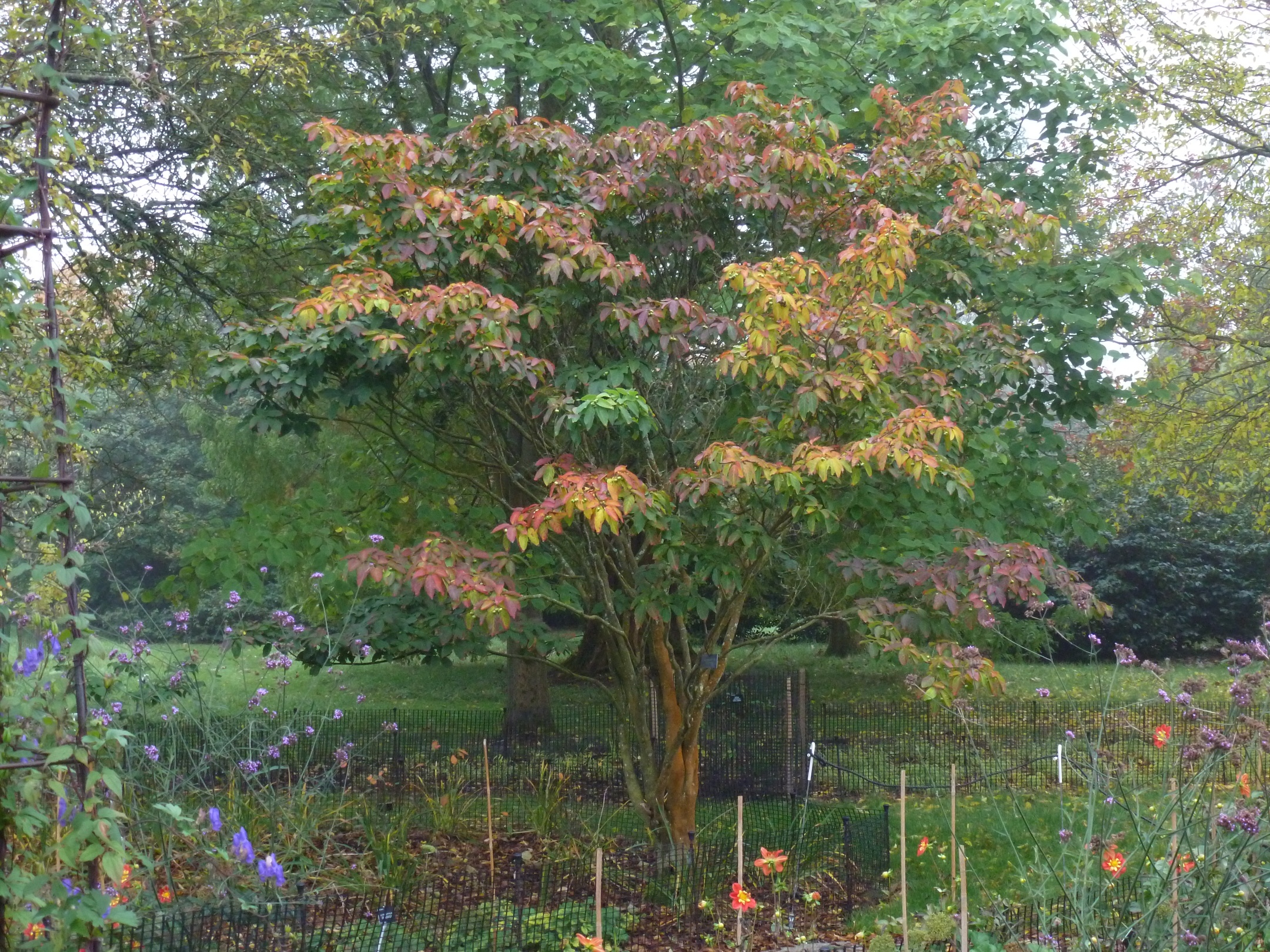 This tree is to be found at the edge of the Centenary Border in Sir Harold Hillier Gardens, near Romsey, Hampshire, England.